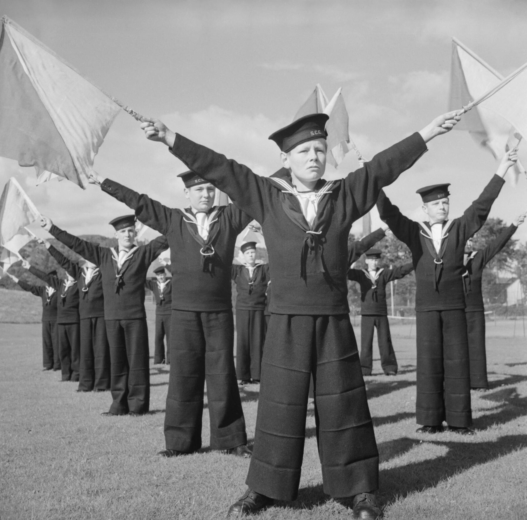 They Learn To Be Sailors- Sea Cadet Training on the Training Ship HMS Undine, Bowness-on-windermere, England, UK, 1943 Sea Cadets practice semaphore in their signalling class at HMS UNDINE, Bowness-on-Windermere.